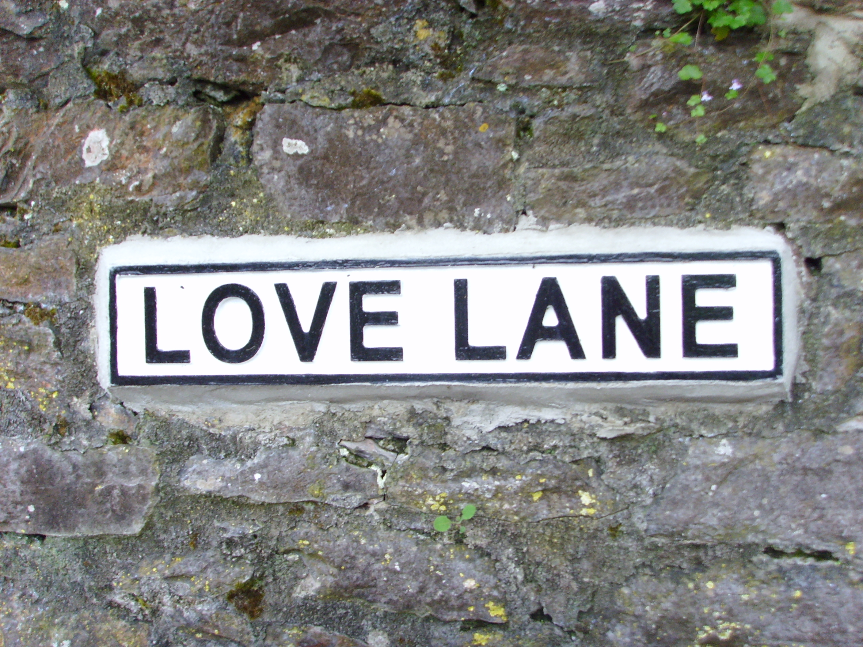 Road sign for Love Lane, Marldon, Devon, United Kingdom